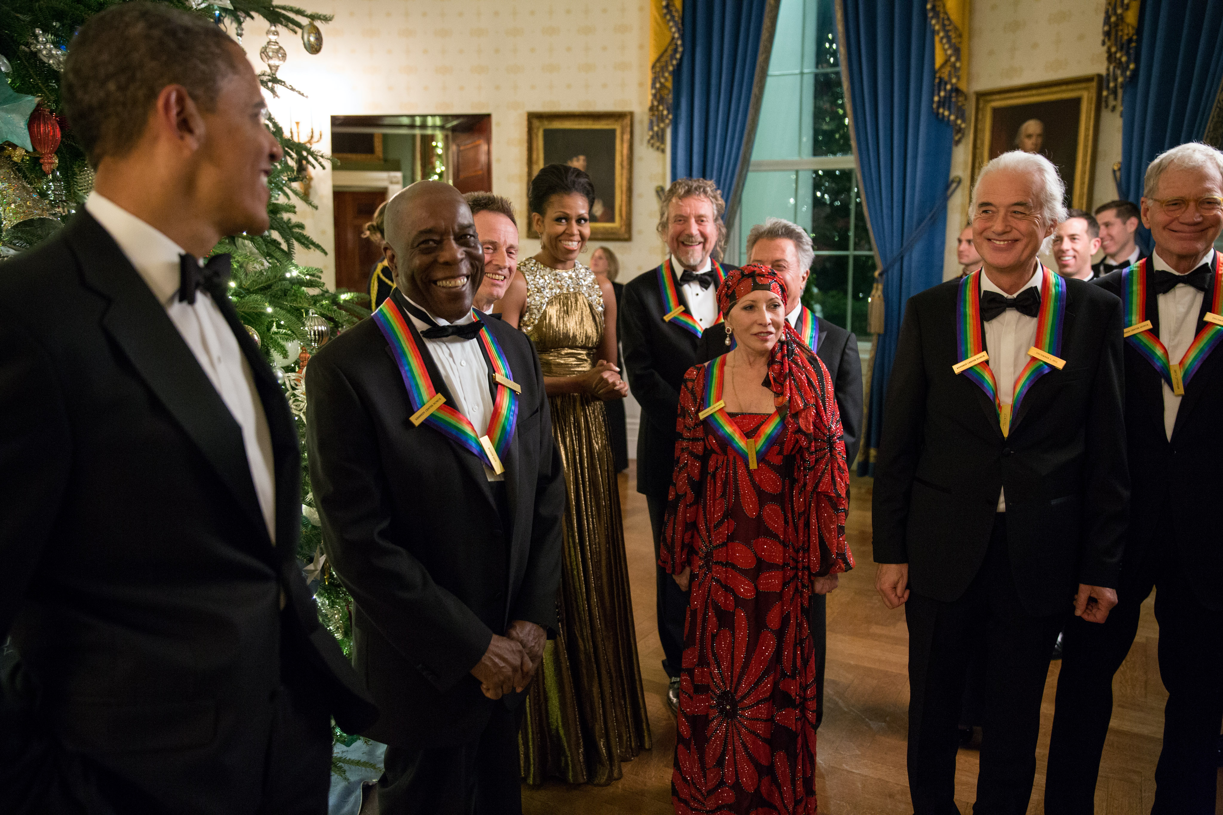 United States President Barack Obama and First Lady Michele Obama talk with the 2012 Kennedy Center Honorees in the Blue Room of the White House prior to a reception in the East Room on 2 December 2012. Honorees, from left, are: Chicago bluesman Buddy Guy, Led Zeppelin keyboardist and bassist John Paul Jones, Led Zeppelin singer Robert Plant, ballerina Natalia Makarova, actor Dustin Hoffman, Led Zeppelin guitarist Jimmy Page, and television comedian David Letterman.